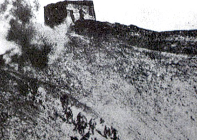 Japanese forces charging toward the wall defense, in the Defense of the Great Wall